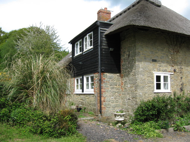 Brinkwells Cottage, near Bedham The cottage was once the home of Sir Edward Elgar. He used this as a country retreat from 1917 to 1920 and it was here that he composed his famous cello concerto.